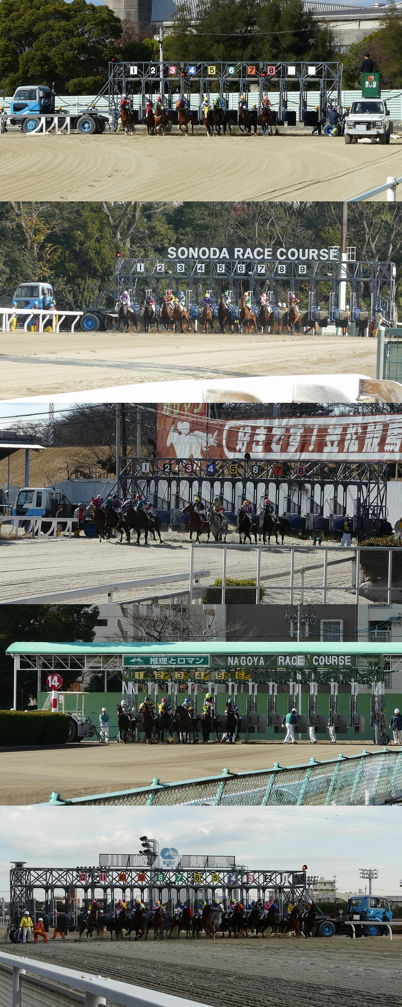 Starting-gate(NAR)